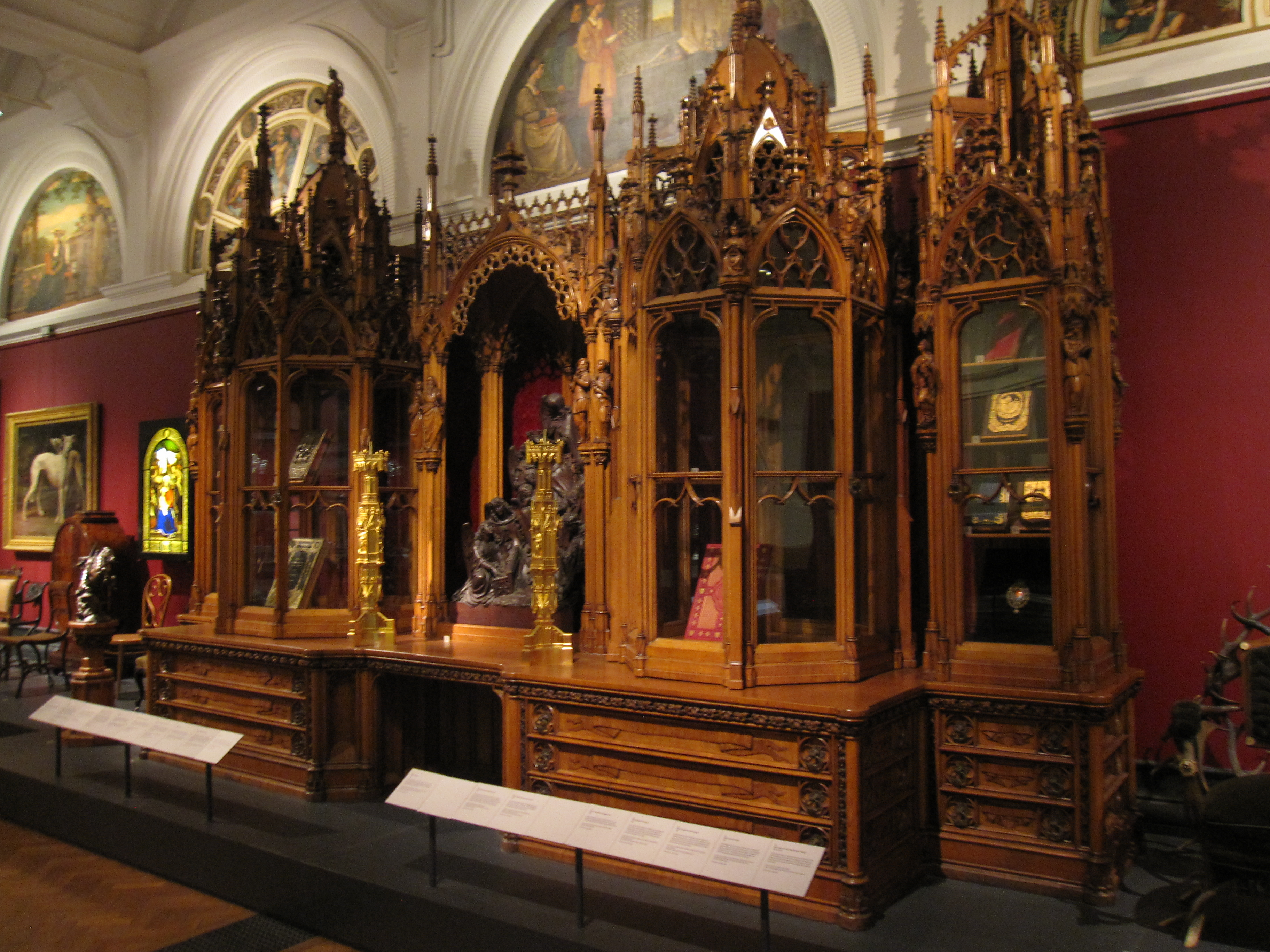 Leistler Bookcase, 1850-51, shown at the Great Exhibition, London, 1851. Leistler's exhibits were described as "massive, bold and masculine in design, and well adapted to a palace". This bookcase, "a cathedral in wood", bears elaborate decoration that referred to current debates on the unification of the German-speaking peoples. It was presented to Queen Victoria by Emperor Franz Joseph of Austria and installed in Buckingham Palace. Made in Vienna, Austria. Designed by Bernardis di Bernardo; assisted by Joseph Kranner; made by Carl Leistler & Sohn; sculpted by Anton Dominik Feinkorn; carved by Franz Maler. Made out of oak. Museum no. W.12-1967. Given by the University of Edinburgh.